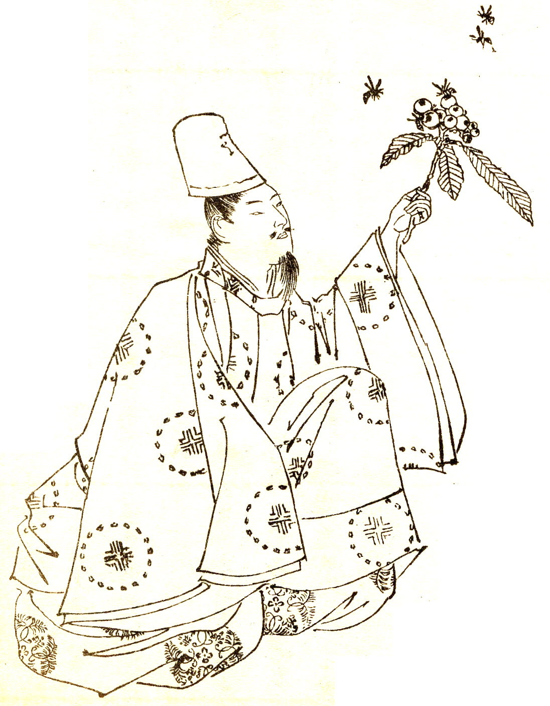 Fujiwara no Munesuke (藤原宗輔) was a court bureaucrat of the Heian period.This picture was drawn by Kikuchi Yosai（菊池容斎） who was a painter in Japan.